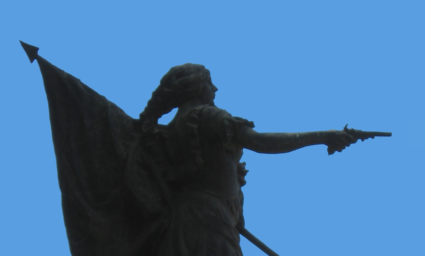 Profile shot of the statue of Eulalia Buroz at Casa Fuerte, Barcelona.